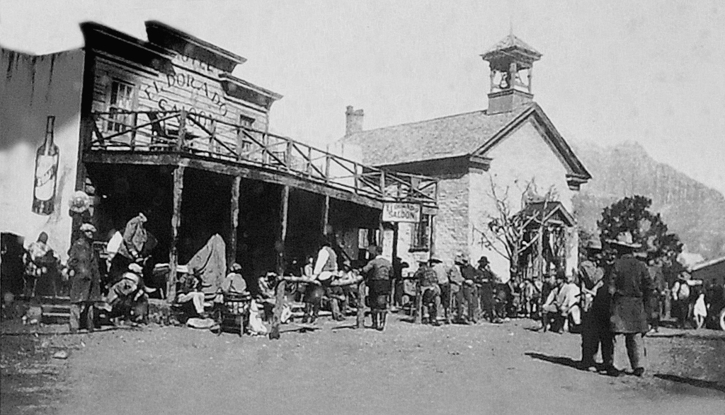 Filmset of In Old Arizona - Grafton, Utah - saloon Eldorado erected next to the church of Grafton